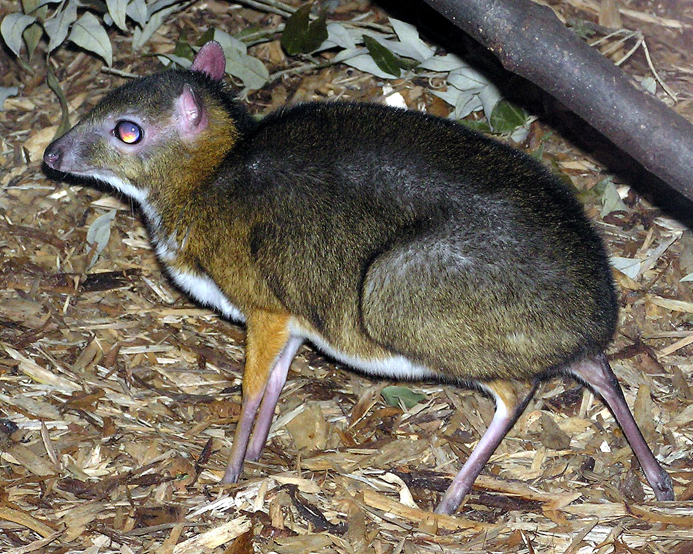 Lesser Malay mouse deer Tragulus javanicus in Twilight World at Bristol Zoo, Bristol, England. The size of a rabbit, this is not a deer and not a mouse, but it is related to deer. Active mainly at night.